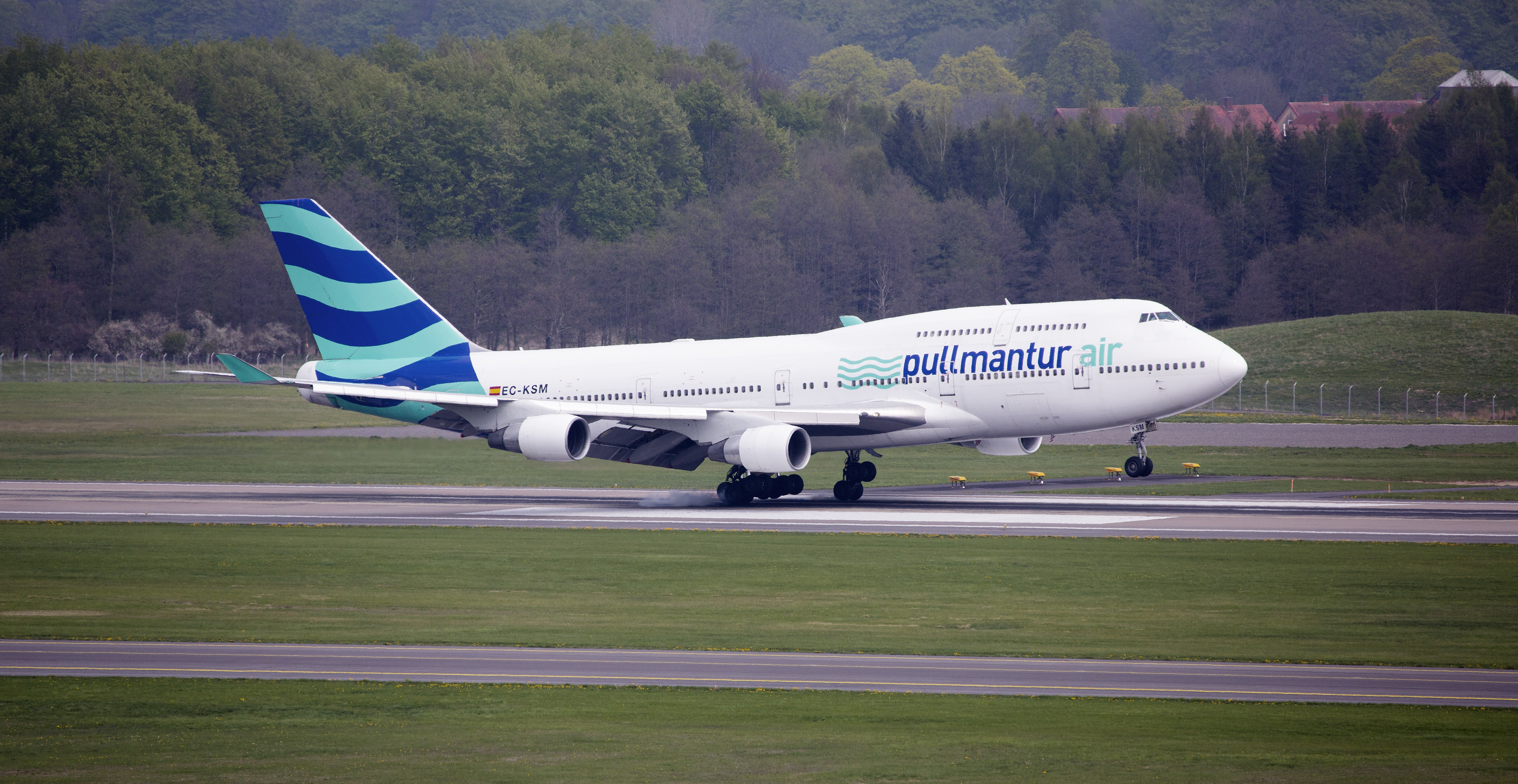 Inaugural flight to Malmö-Sturup Airport of Air Pullmantur with a Boeing 747-400.